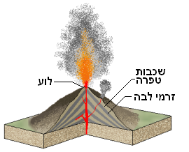 stratovolcano cross section - hebrew